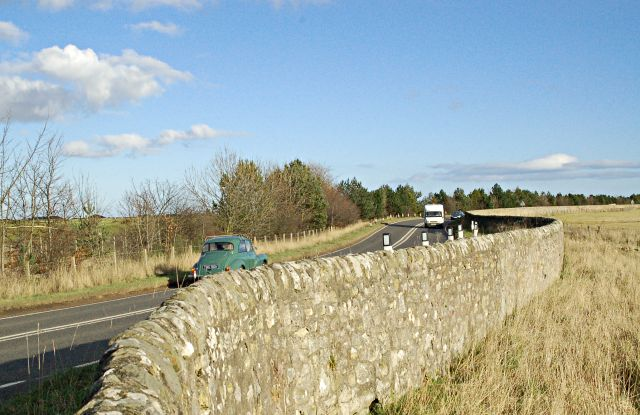 Dyke by the A91 This long dyke runs along the northern edge of the Strathtyrum estate on its boundary with the A91. The green Moggie 1000 is heading into St Andrews.